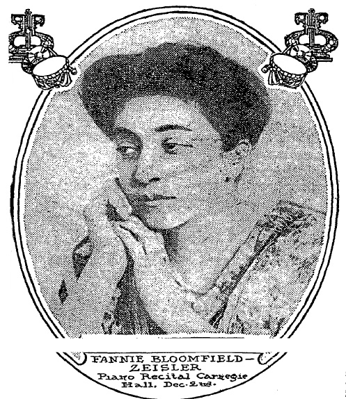 Pianist Fannie Bloomfield Zeisler (1863—1927) portrayed at The New York Times, November 26, 1911.